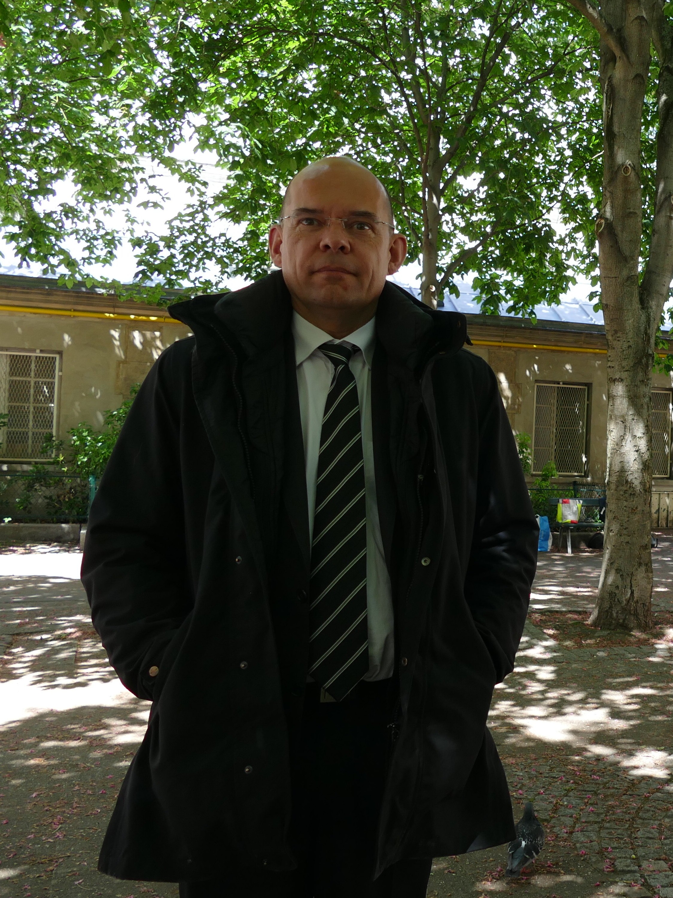 Xavier Lemoine, mayor of Montfermeil in Paris (Île-de-France, France).